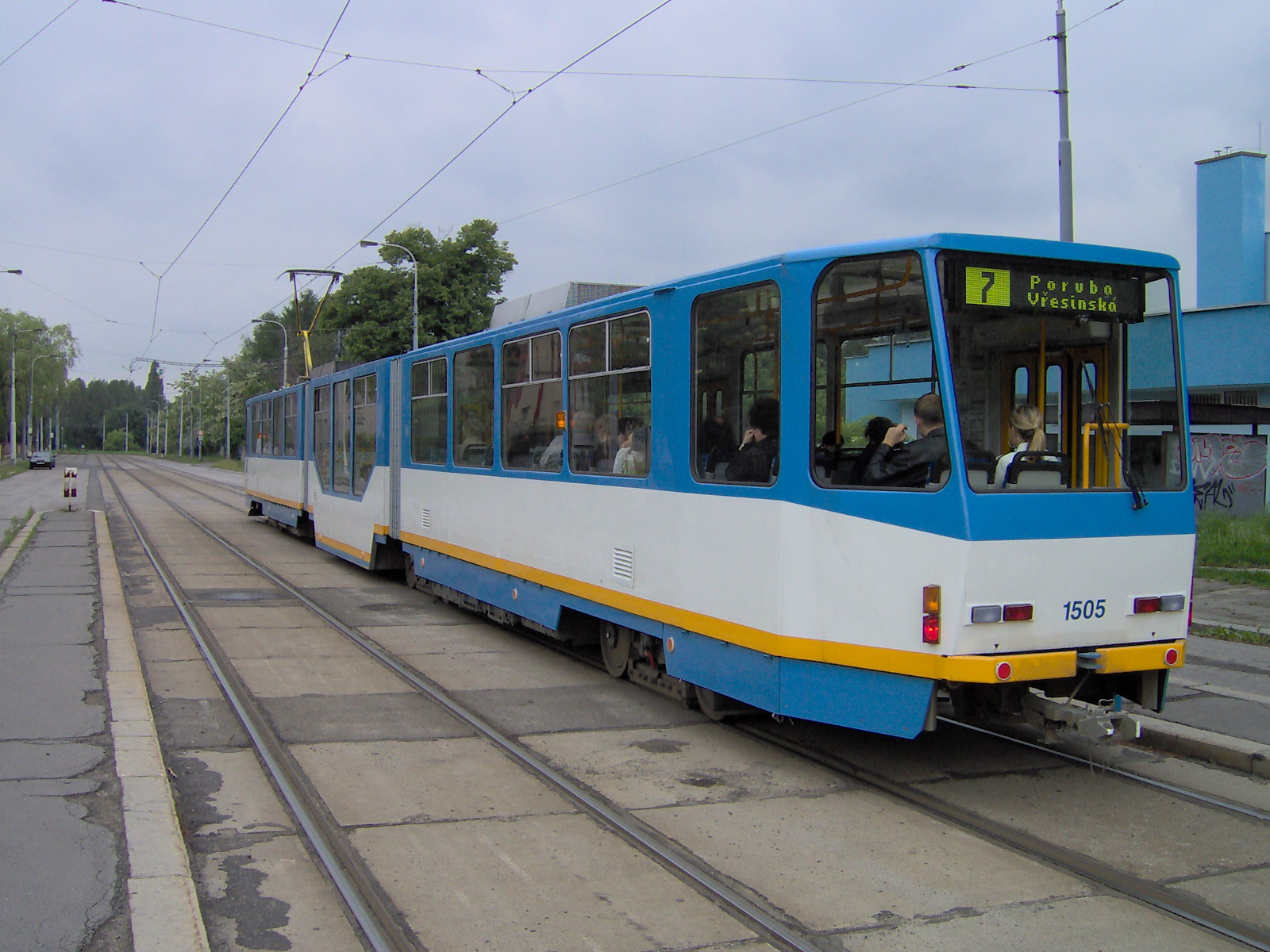 KT8D5R.N1 tram in Ostrava